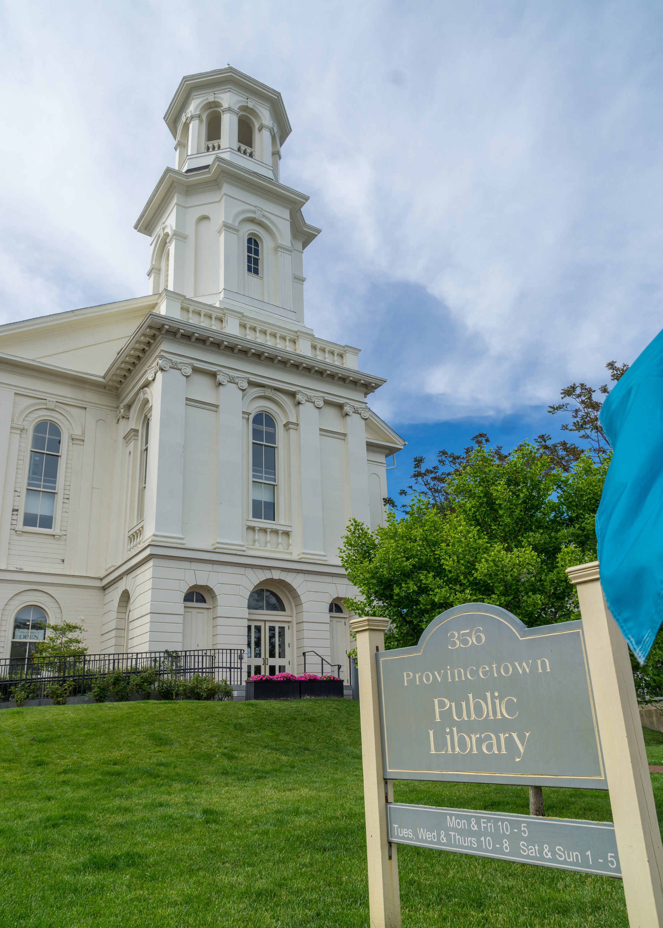 Provincetown Public LIbrary in the former Center Methodist Church. 356 Commercial St, Provincetown, Massachusetts.